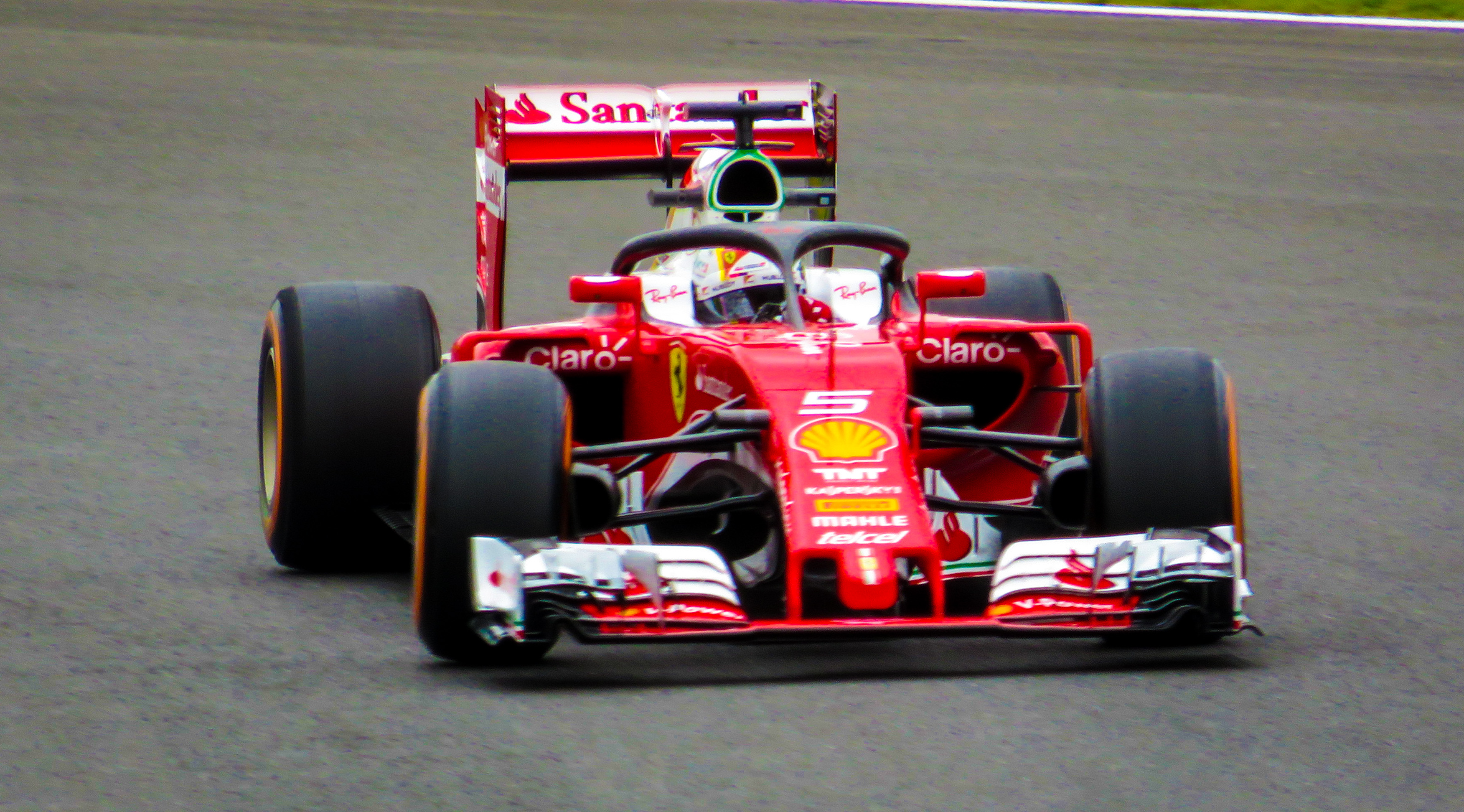 Vettel tries the Halo system at the 2016 British GP